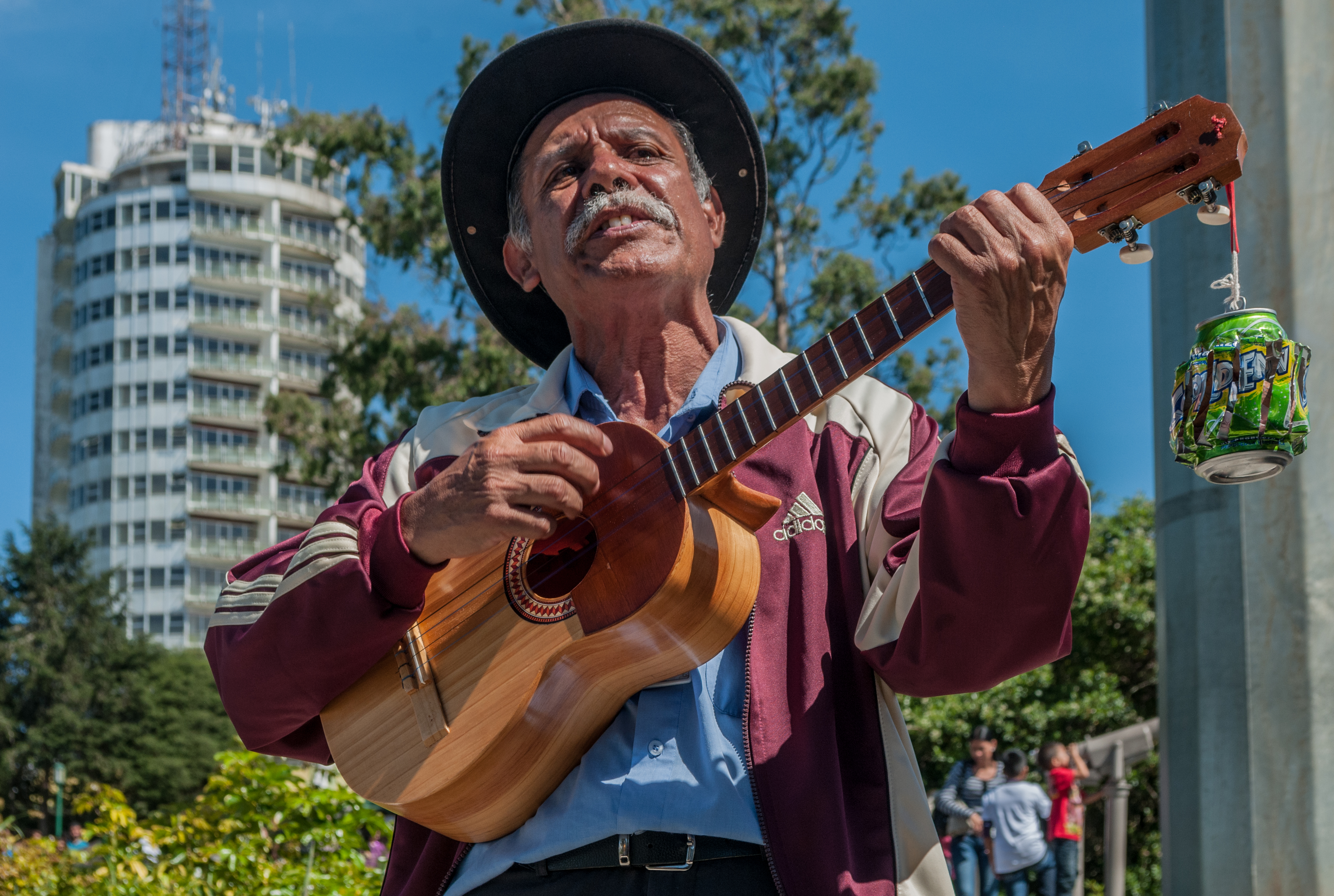 Man singing for money, Venezuela